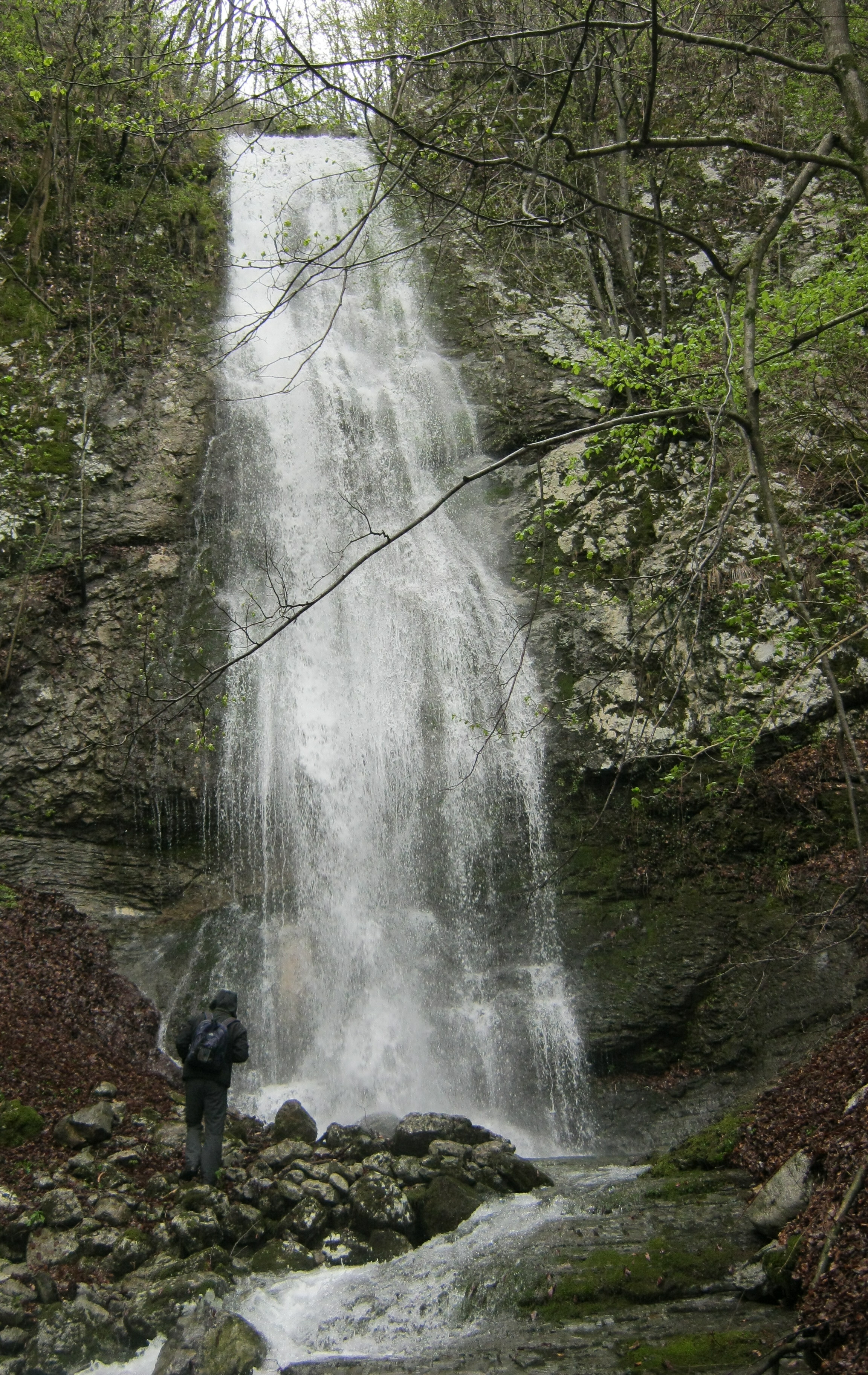 waterfall on Laze